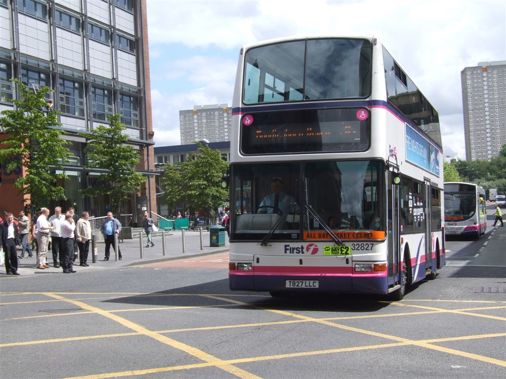 First Glasgow 32827, a Dennis Trident with Plaxton President bodywork.